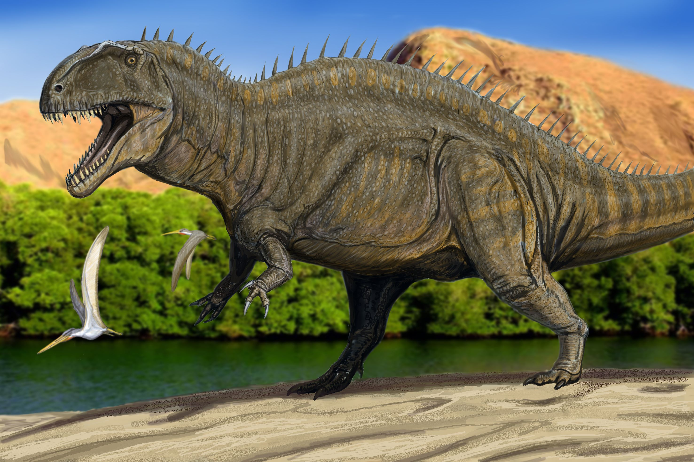 Acrocanthosaurus atokensis, Early Cretaceous (Aptian-Albian) of North America